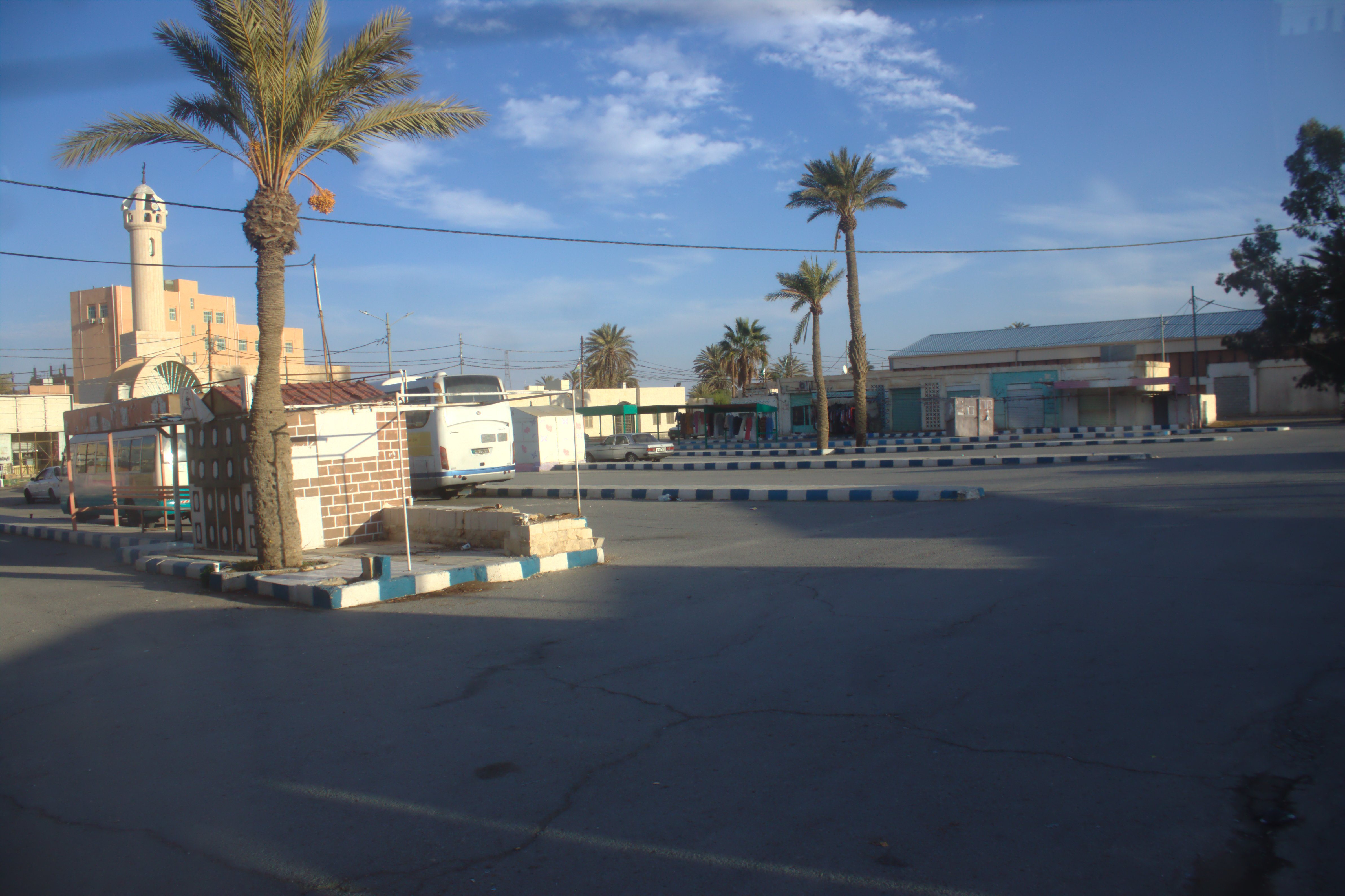 Bus Station in Maan, Jordan